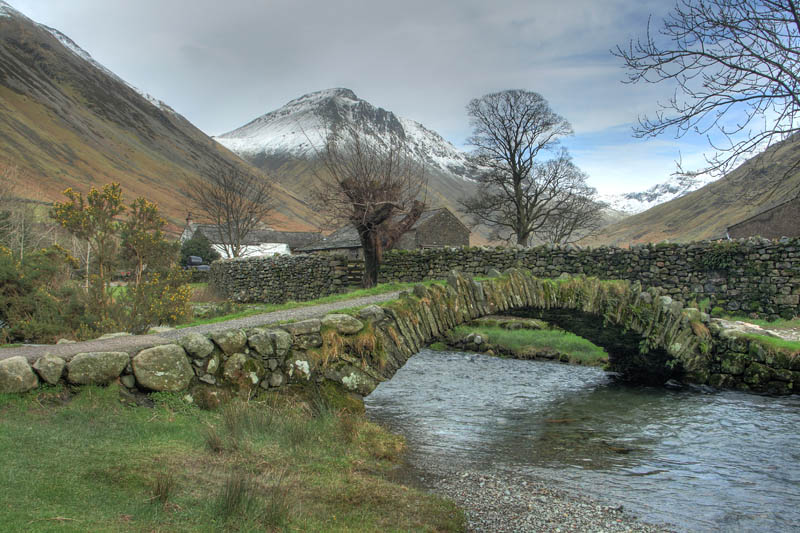 Row Bridge, Wasdale, Cumbria, with a snow-capped Great Gable in the distance. Row Bridge is a packhorse bridge, built probably in the 18th century.